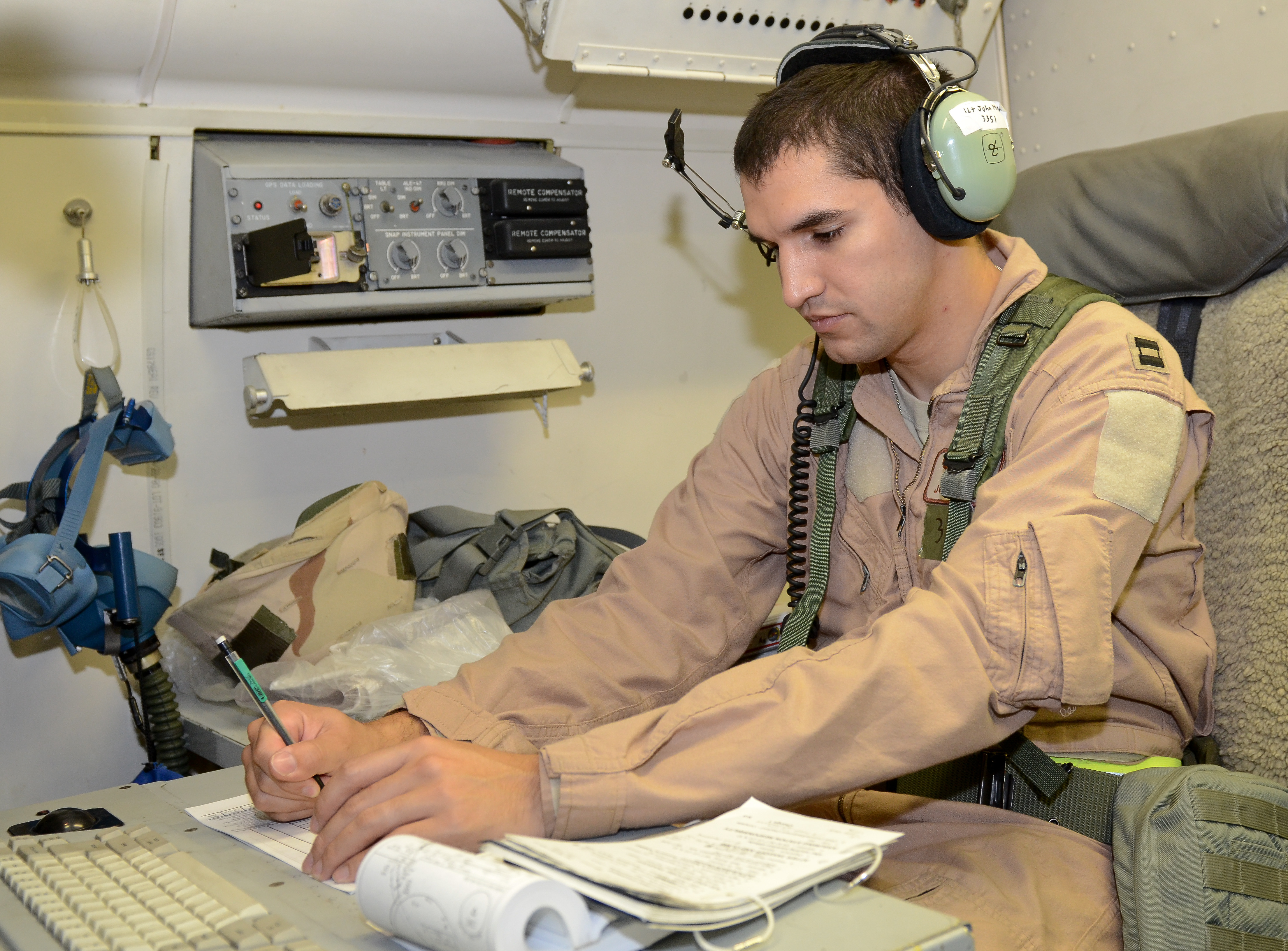 A U.S. Air Force navigator on an E-8C Joint STARS reviews a flight plan prior to a sortie during an operational readiness inspection at Robins Air Force Base, Ga., Sept. 8, 2012. Airmen from the 116th and 461st ACW are showcasing their ability to perform assigned tasks in wartime, contingency or force sustainment operation. Inspection areas include initial response, employment, mission support and ability-to-survive and operate in a chemical environment.(National Guard photo by Master Sgt. Roger Parsons/Released) For full story